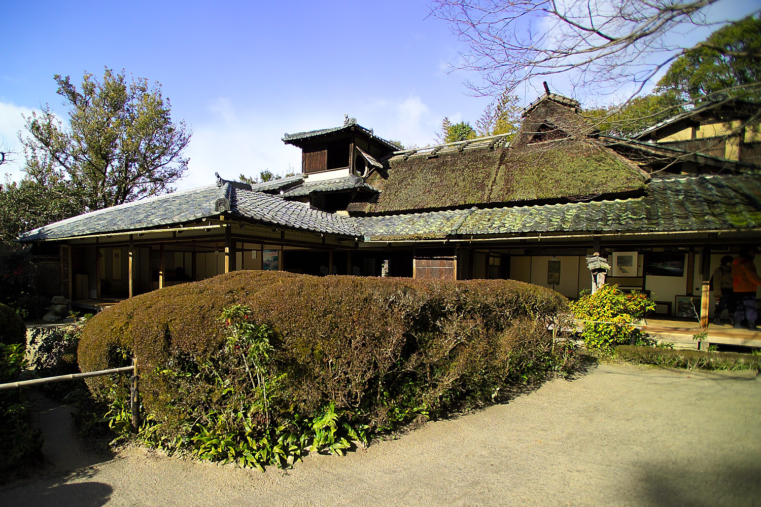 Garden and buildings at Shisen-dō, a Buddhist temple in Kyoto, Japan